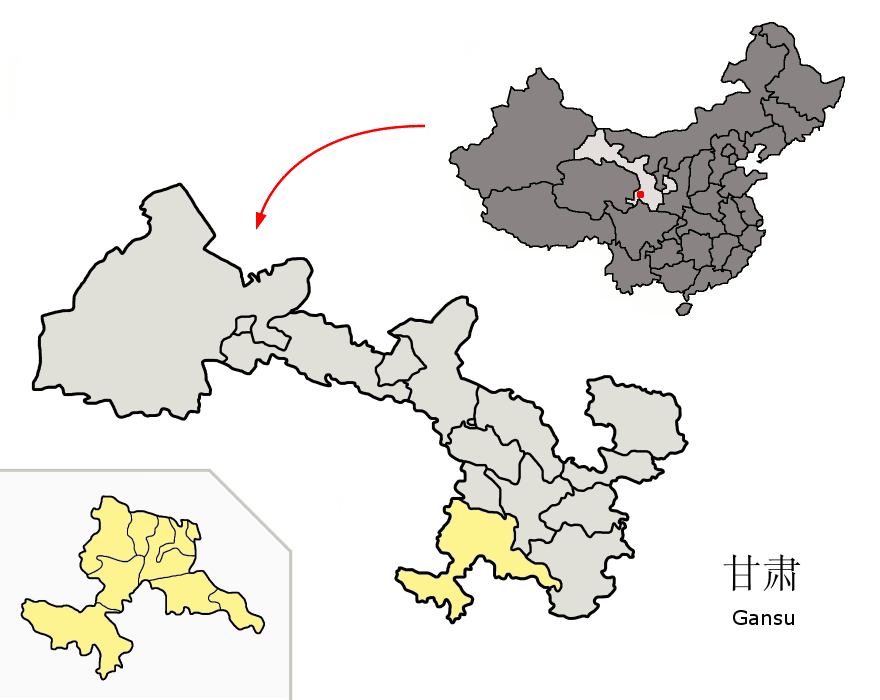 Location of Gannan Prefecture (yellow) within Gansu province of China Map drawn in september 2007 using various sources, mainly : Gansu province administrative regions GIS data: 1:1M, County level, 1990 Gansu Counties map from